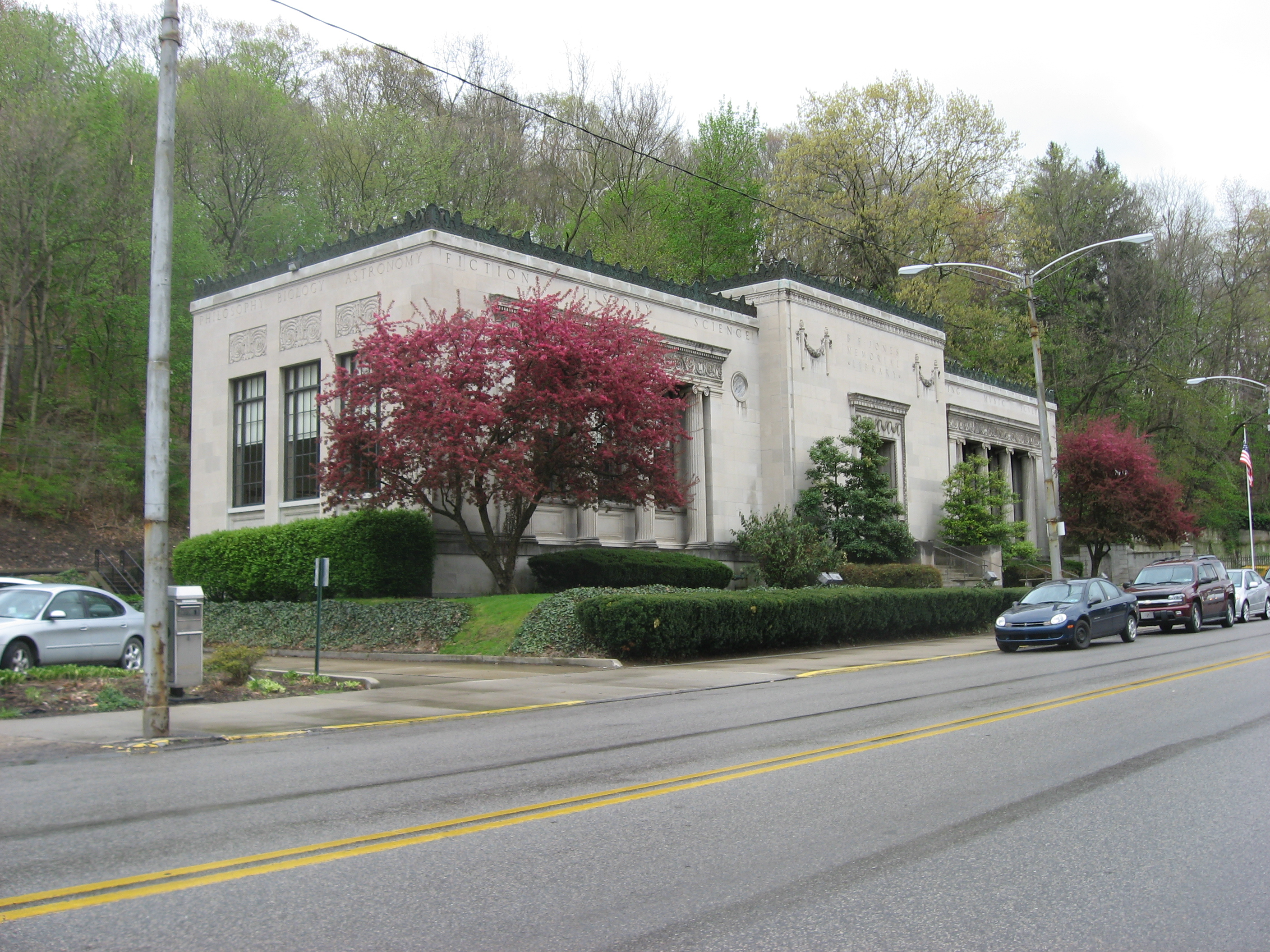 Front and eastern side of the B.F. Jones Memorial Library, located at 663 Franklin Avenue in Aliquippa, Pennsylvania, United States. Built in 1927, it is listed on the National Register of Historic Places.